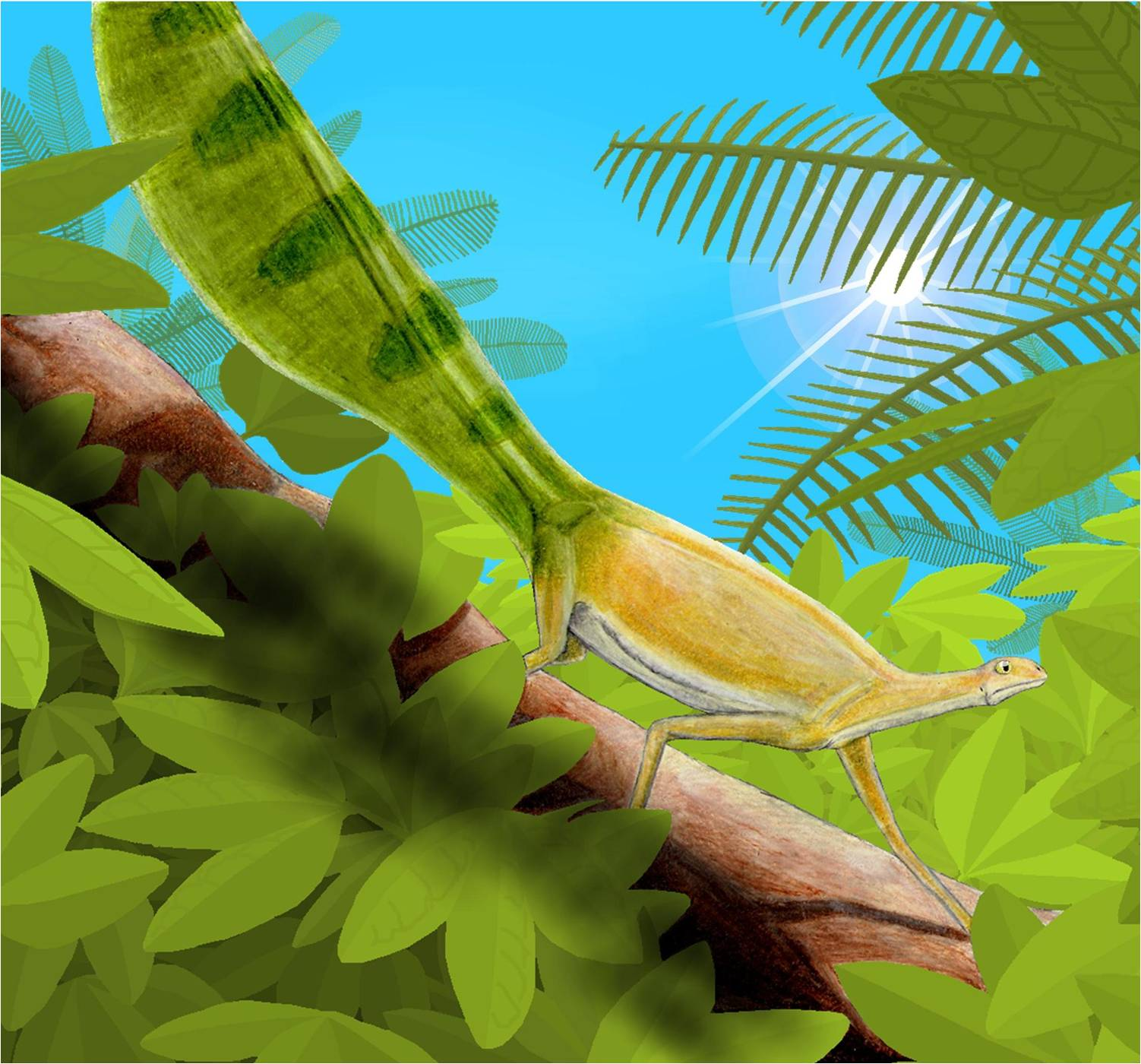 Life restoration of Hypuronector limnaios as an arborial animal Body based off of figure 15 of "A new and unusual aquatic reptile from the Lockatong Formation of New Jersey (Late Triassic, Newark Supergroup)" by E. H. Colbert and P. E. Olsen American Museum Novitates 3334:1-24